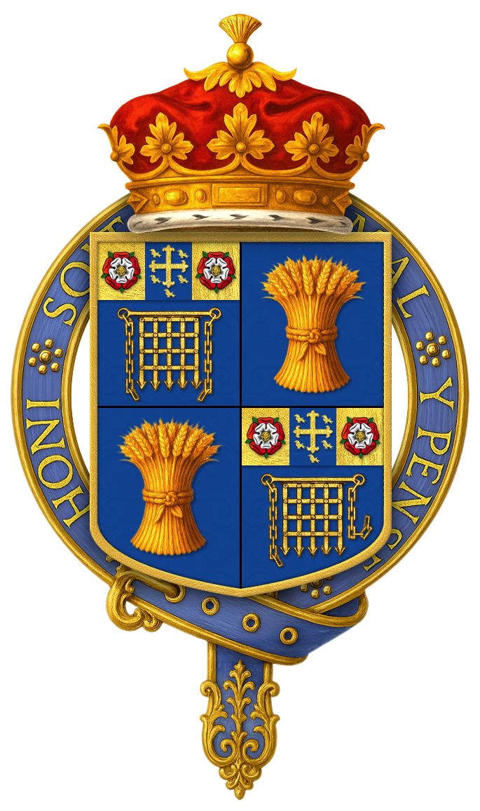 Coat of Arms of Gerald Grosvenor, 6th Duke of Westminster, KG, CB, CVO, OBE, TD, CD, DL